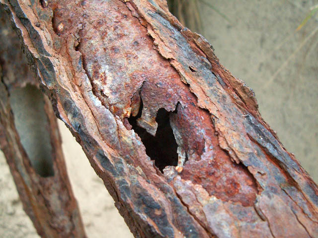 Rusting handrail, steps over sea wall near Horesy Gap The sea wall between Horsey and Winterton was only completed in the 1980s. It's taken only twenty or so years for the sea spray to eat through the handrail.